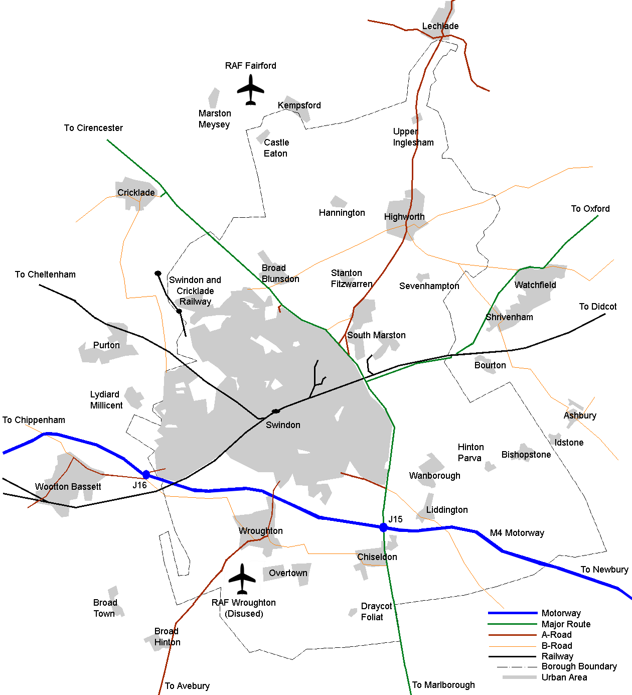 Outline map of the Borough of Swindon with Main Transport routes displayed